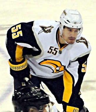 Buffalo Sabres forward Jochen Hecht during a February 1, 2010 game against the Pittsburgh Penguins at Mellon Arena in Pittsburgh, PA.